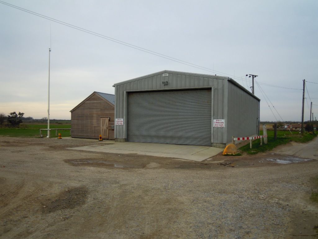 Happisburgh Lifeboat Station at Cart Gap near the village of Happisburgh, Norfolk, United Kingdom.